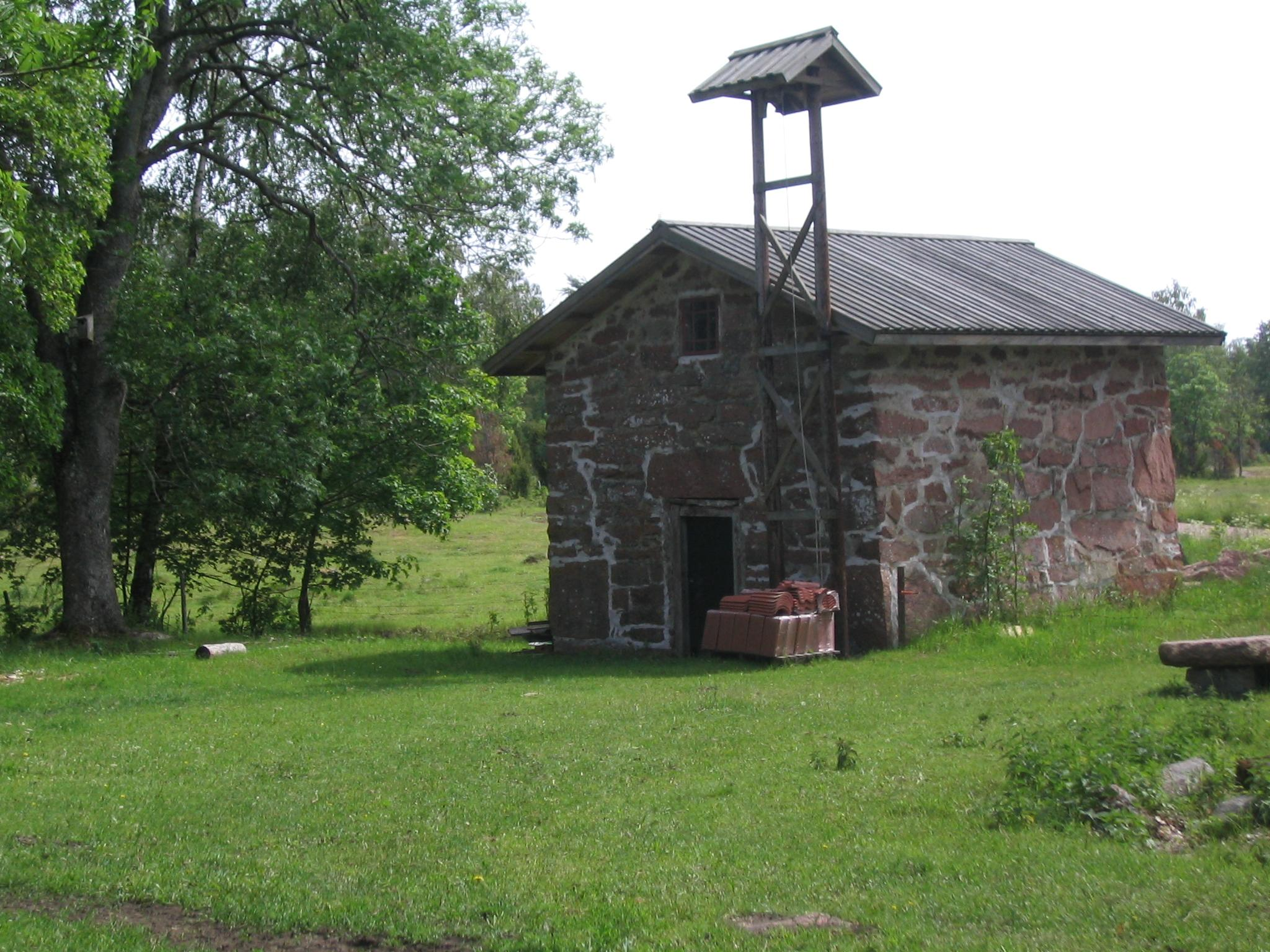 An old storehouse with a bell in the village of Rågetsböle in the municipality of Finström, Åland, Finland.